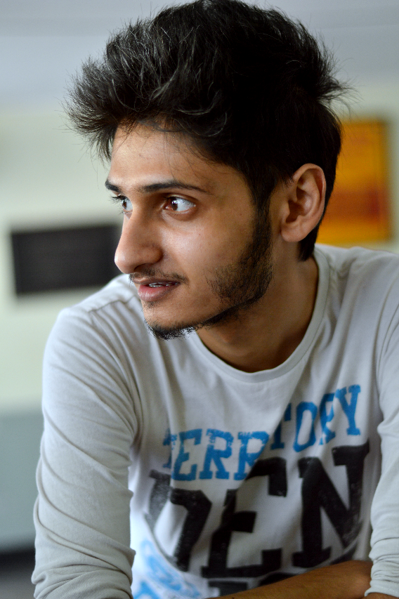 Public figure.